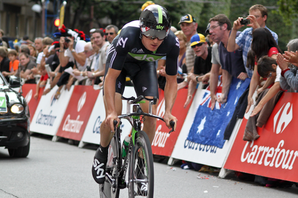 Geraint Thomas